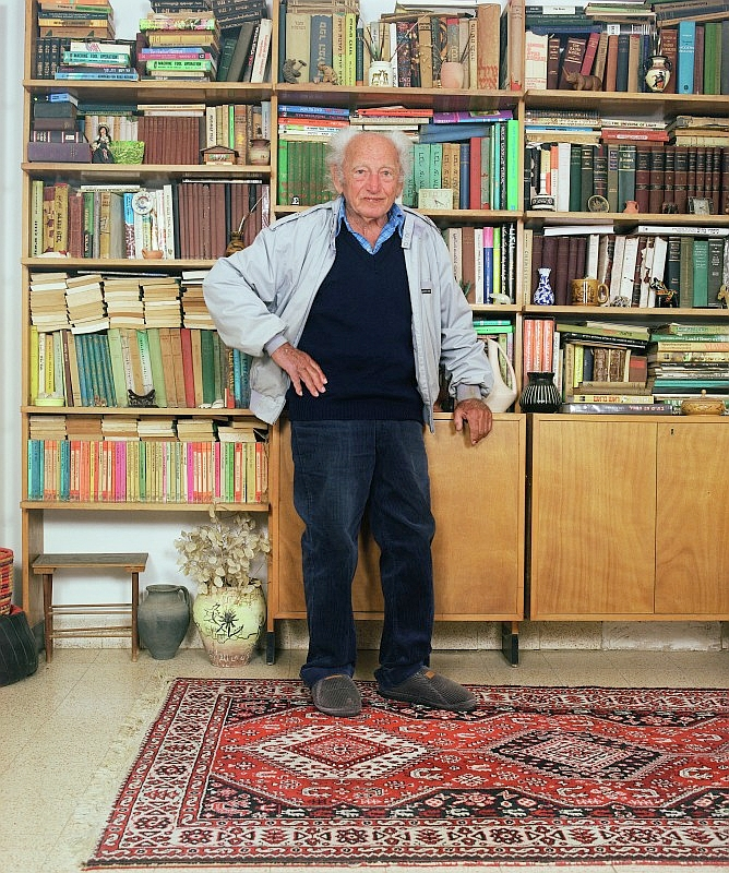 Art of Israel